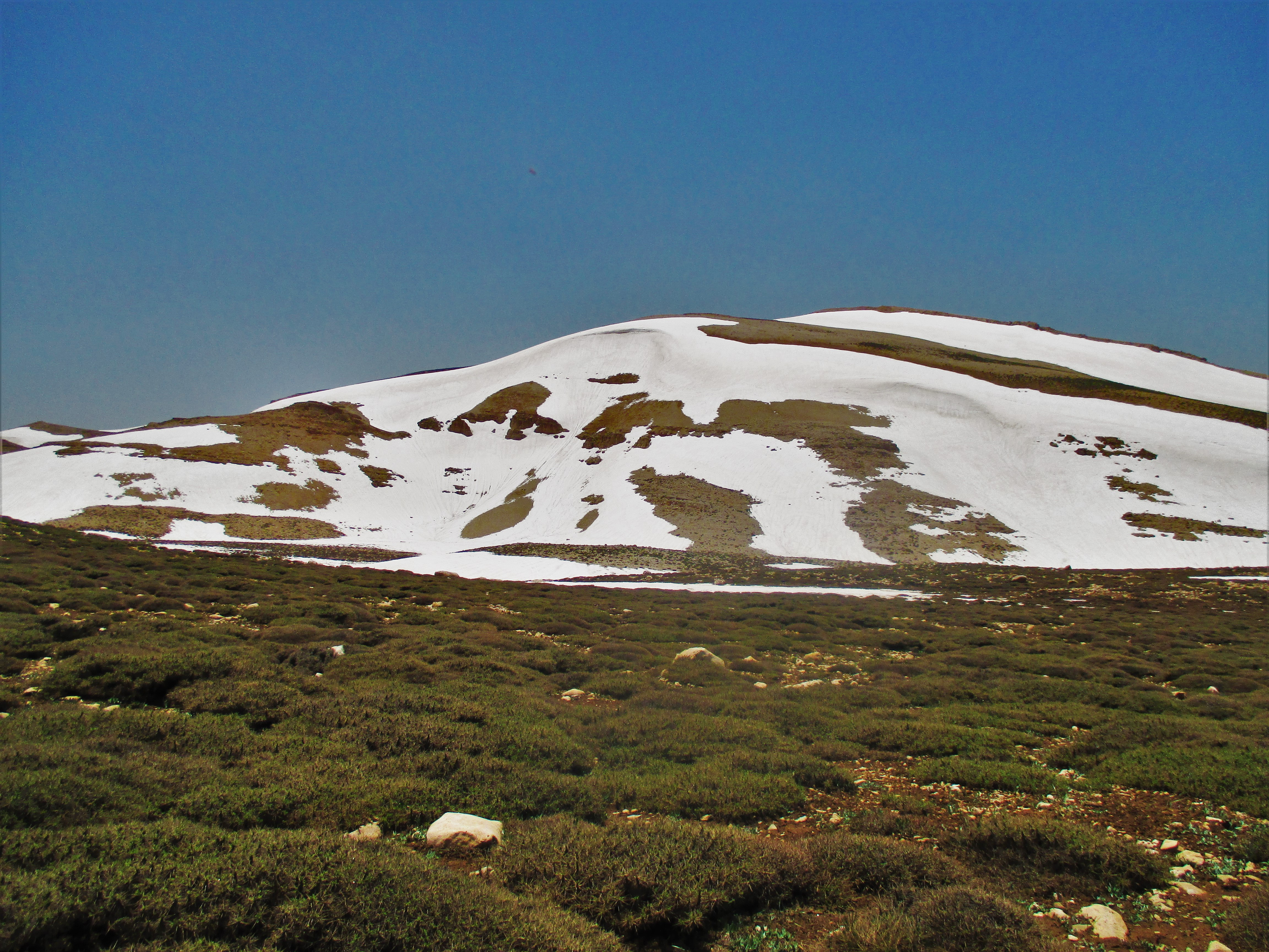 qurnat as sawda' during early summer